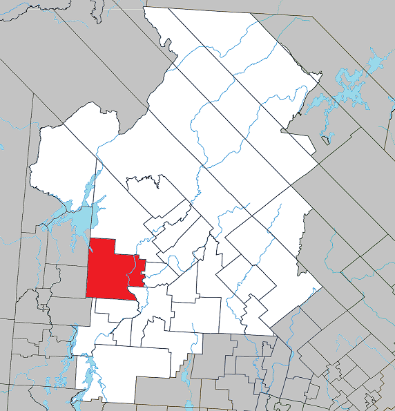 Location of Mont-Laurier, Quebec within Antoine-Labelle Regional County Municipality.